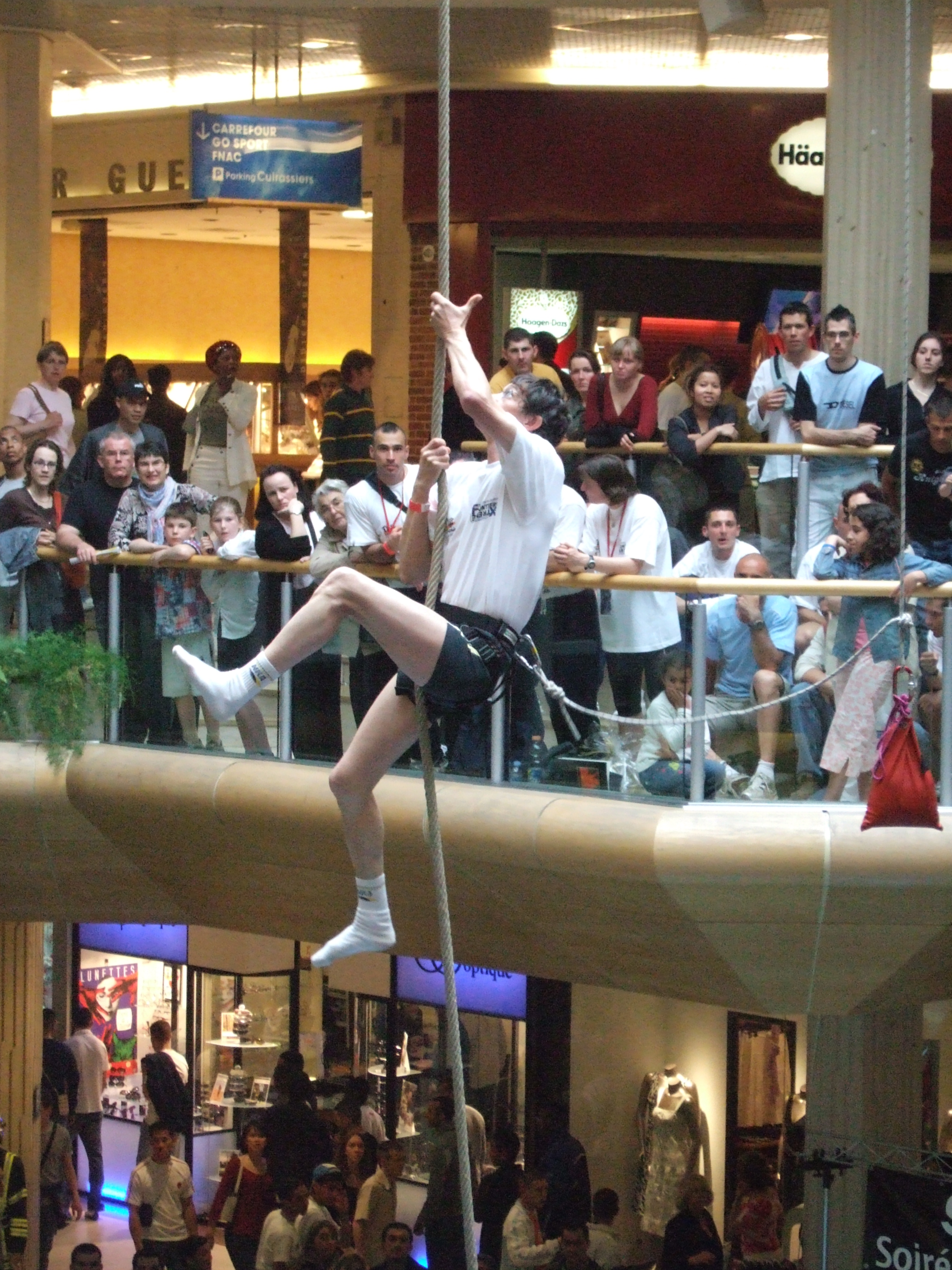 An unidentified competitor at 's competition at the shopping centre La Part Dieu, Lyon, 6/5/2006. By me. (not stolen from their website)